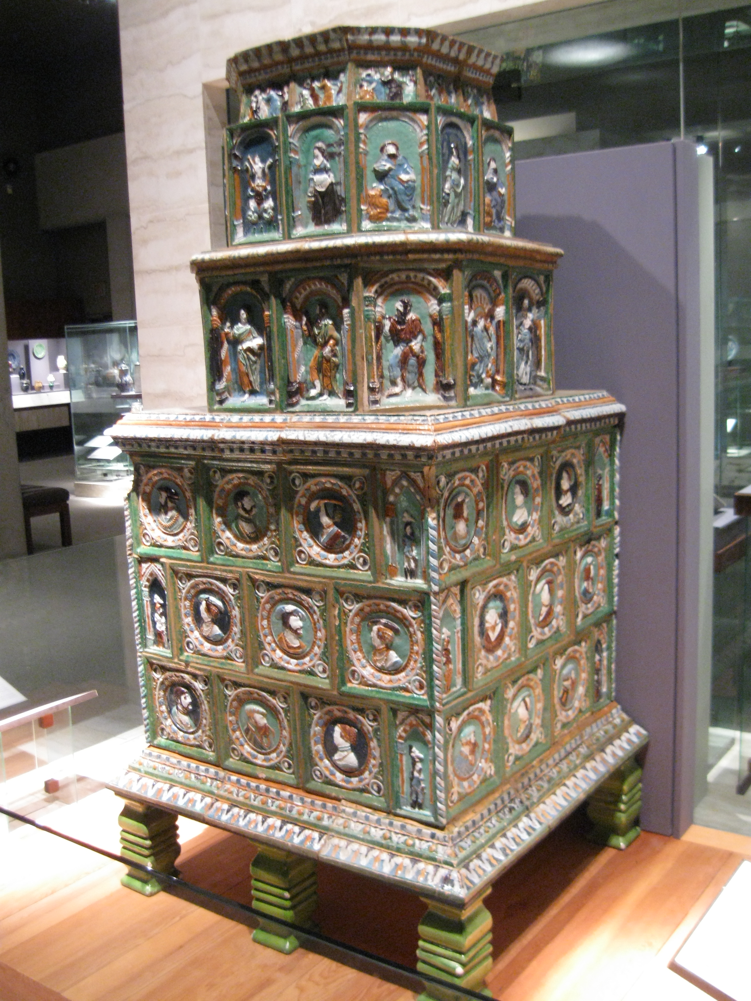 The use of tiled stoves likely originated in the Alps in the late 13th century. The idea developed from a simple clay dome to an ornate tower-like structure. Open fireplaces were replaced when the tiled stove became artistically integrated into both the architecture and fittings of the rooms of palaces, castles, convents and monasteries. The surfaces of the tiles were decorates and the subjects portrayed varied considerably. The top level of the tiles on this stove portray the Expulsion of Hagar (from the Old Testament), the second level of tiles portray musicians, the third level depicts the twelve apostles, and the tiles on the firebox are decorated with unidentified portraits. The Tiled stove dates to c.1560 and is made of lead-glazed earthernware. It originates from either Germany or Central Europe. This immense object is today located within the Koerner Gallery section of the UBC Museum of Anthropology in Vancouver, Canada. Its UBC museum catalogue number is Ch.267